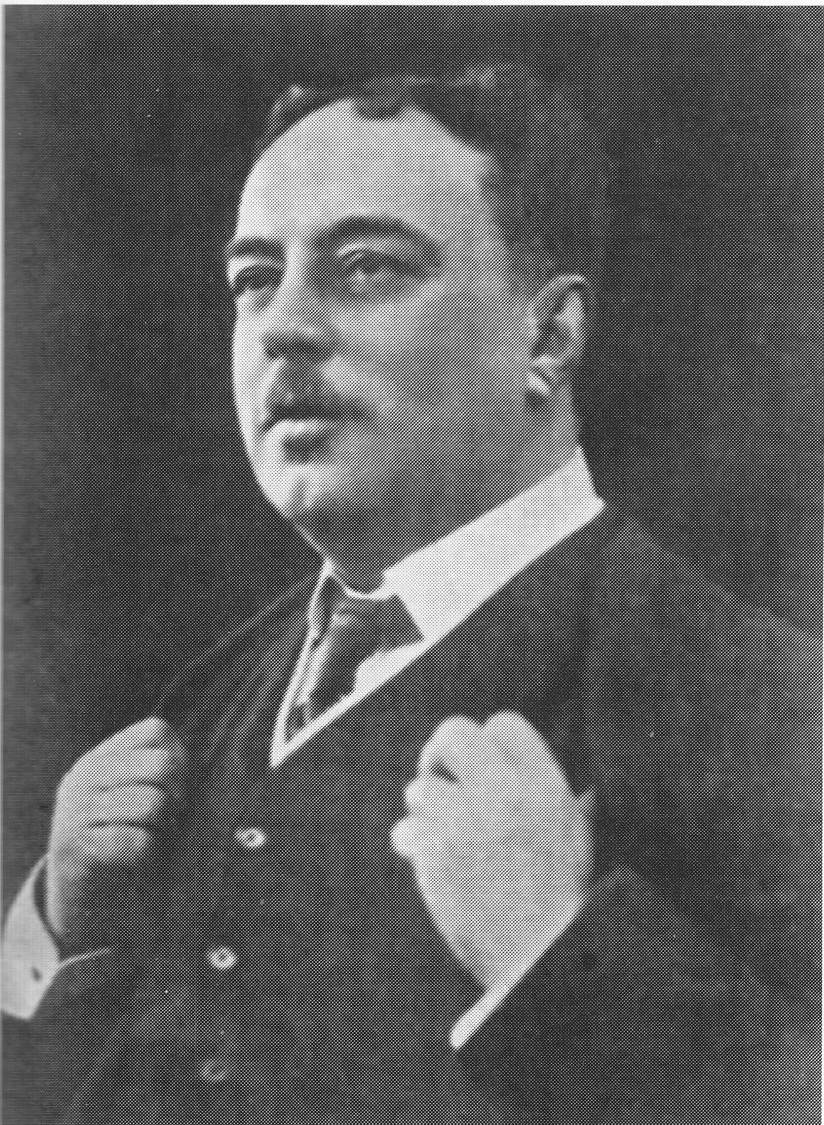 Hjalmar Frey finnish operasinger